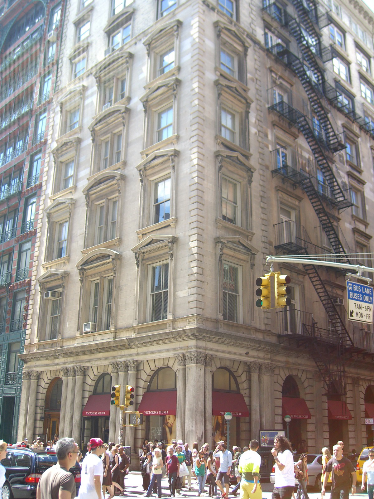 565 Broadway, at the corner of Prince Street in Manhattan’s SoHo district, where The Real World: New York was filmed in 1992.